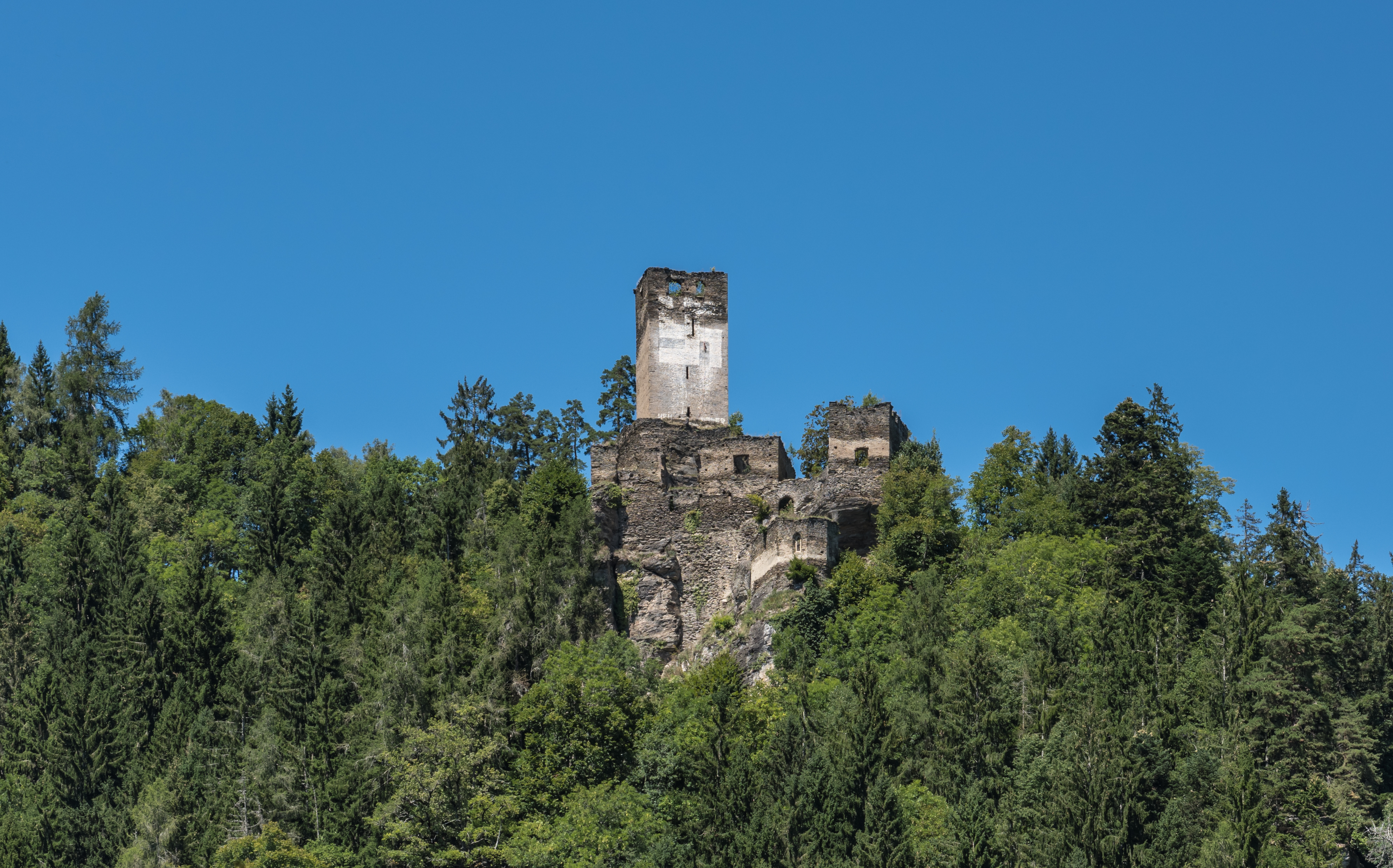 Ruins of the castle Hochkraig in Grassen, municipality Frauenstein (Kärnten), district Sankt Veit an der Glan, Carinthia, Austria, EU